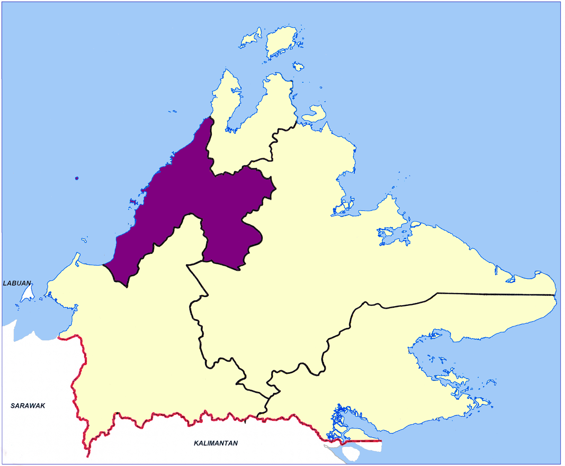 Sabah: Area covered by the West Coast Division